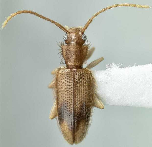 Dorsal habitus AutoMontage photo of Telephanus paradoxus.